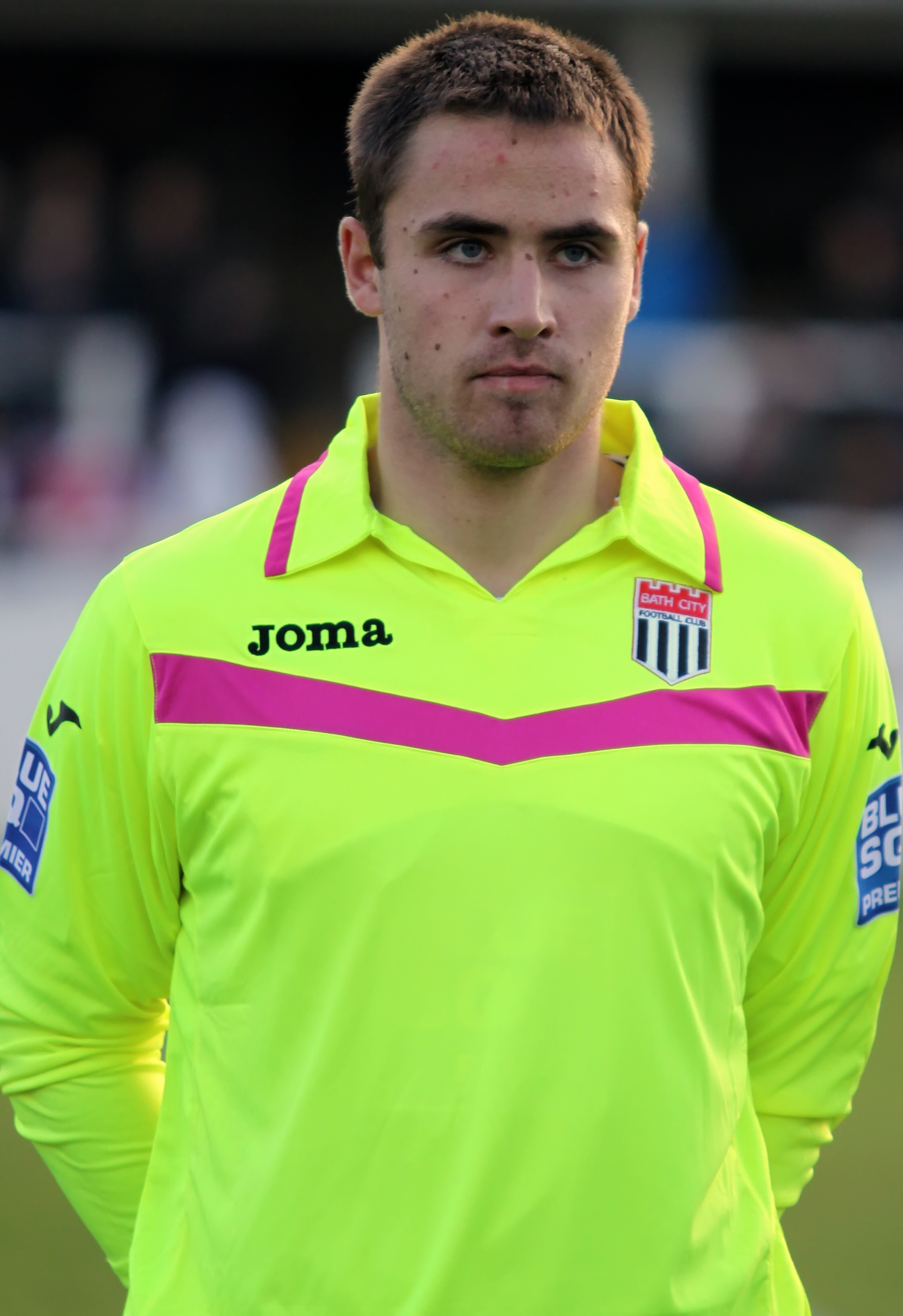 Carl Pentney. Image cropped from original at flickr.